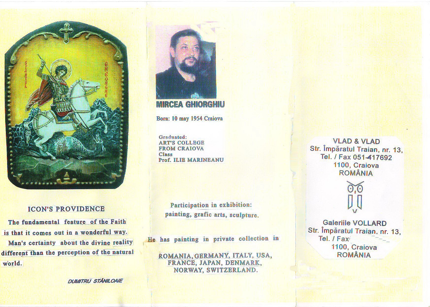 Leaflet exhibition of paintings and icons on wood artist Mircea Ghiorghiu